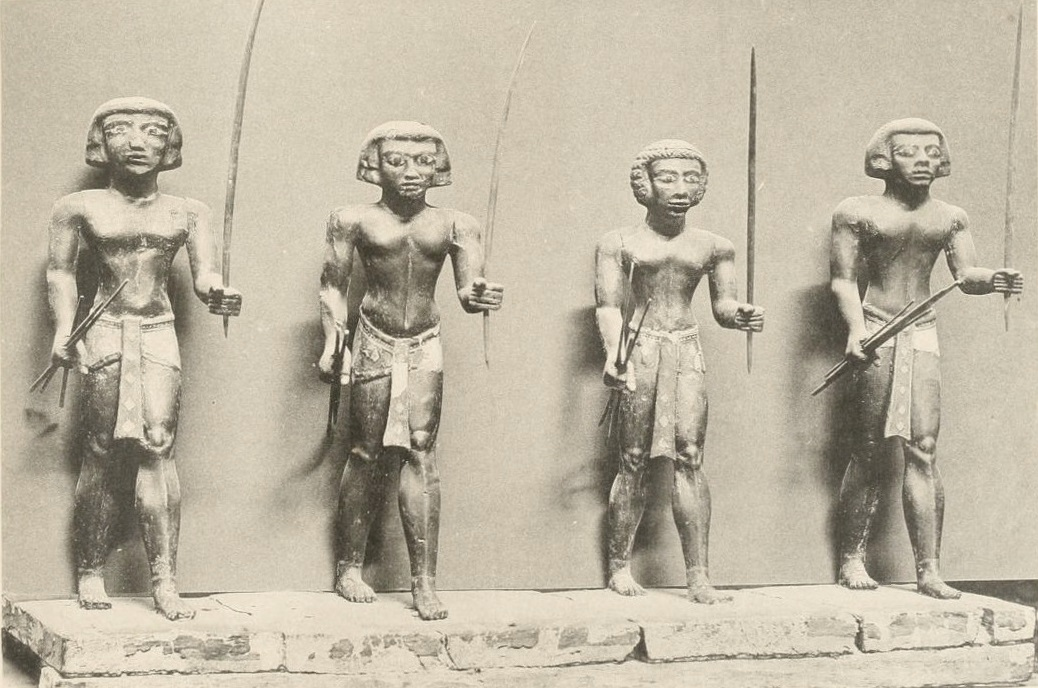 Group of Nubian bowmen miniatures from the tomb of the ancient Egyptian nomarch Mesehti. Painted wood from Asyut, around 2000 BCE, First intermediate period. Cairo, Egyptian Museum CG 257 (JE 30969) or CG 258 (JE 30986).